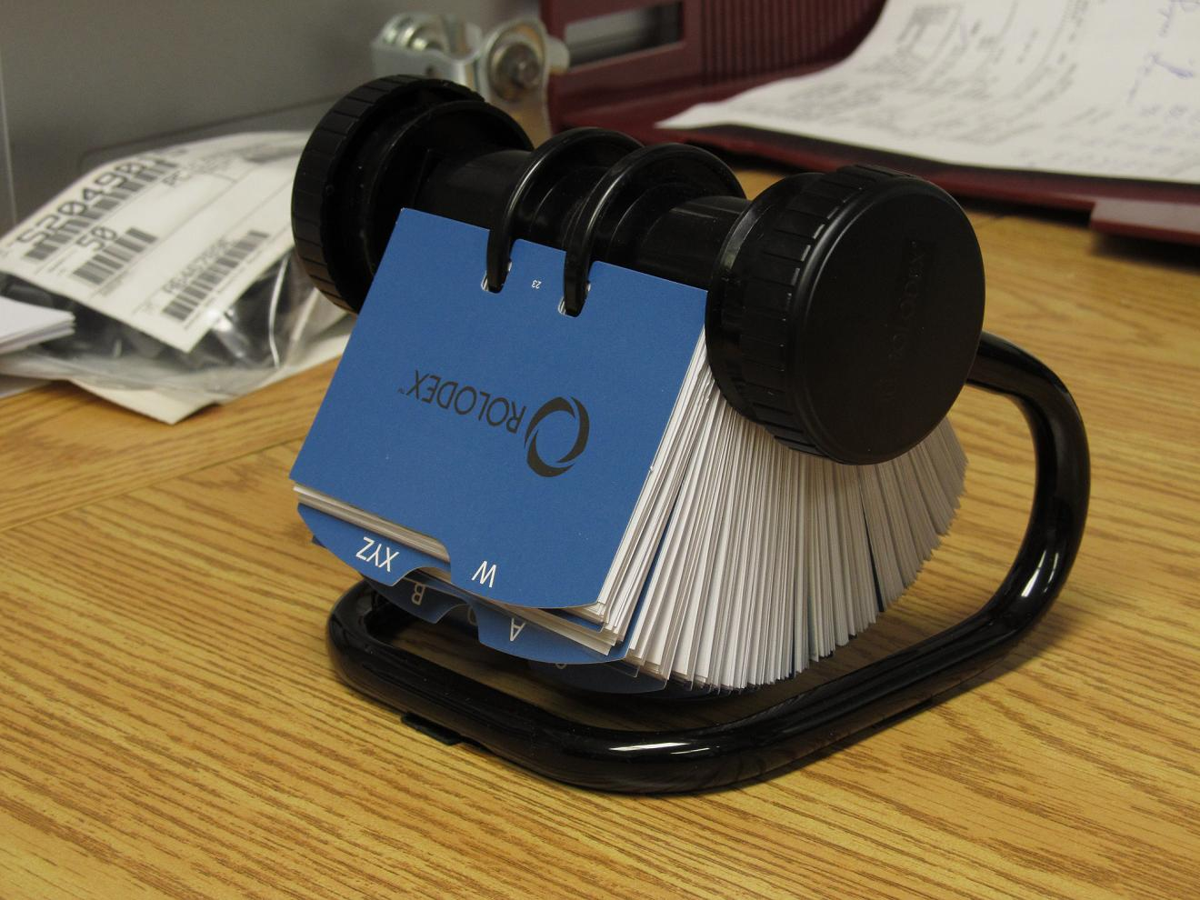 present model of Rolodex card file, currently in-use